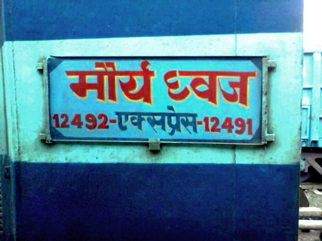 Muzaffarpur Jammu Tawi Maur Dhwaj Express Nameplate